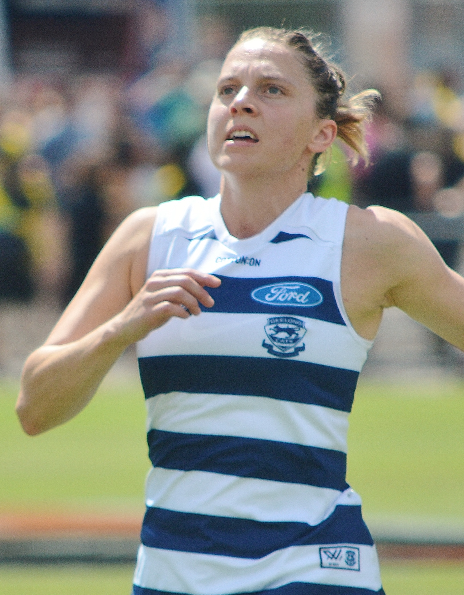 Anna Teague with Geelong in the round 4 2020 AFLW match against Richmond at Queen Elizabeth Oval in Bendigo.